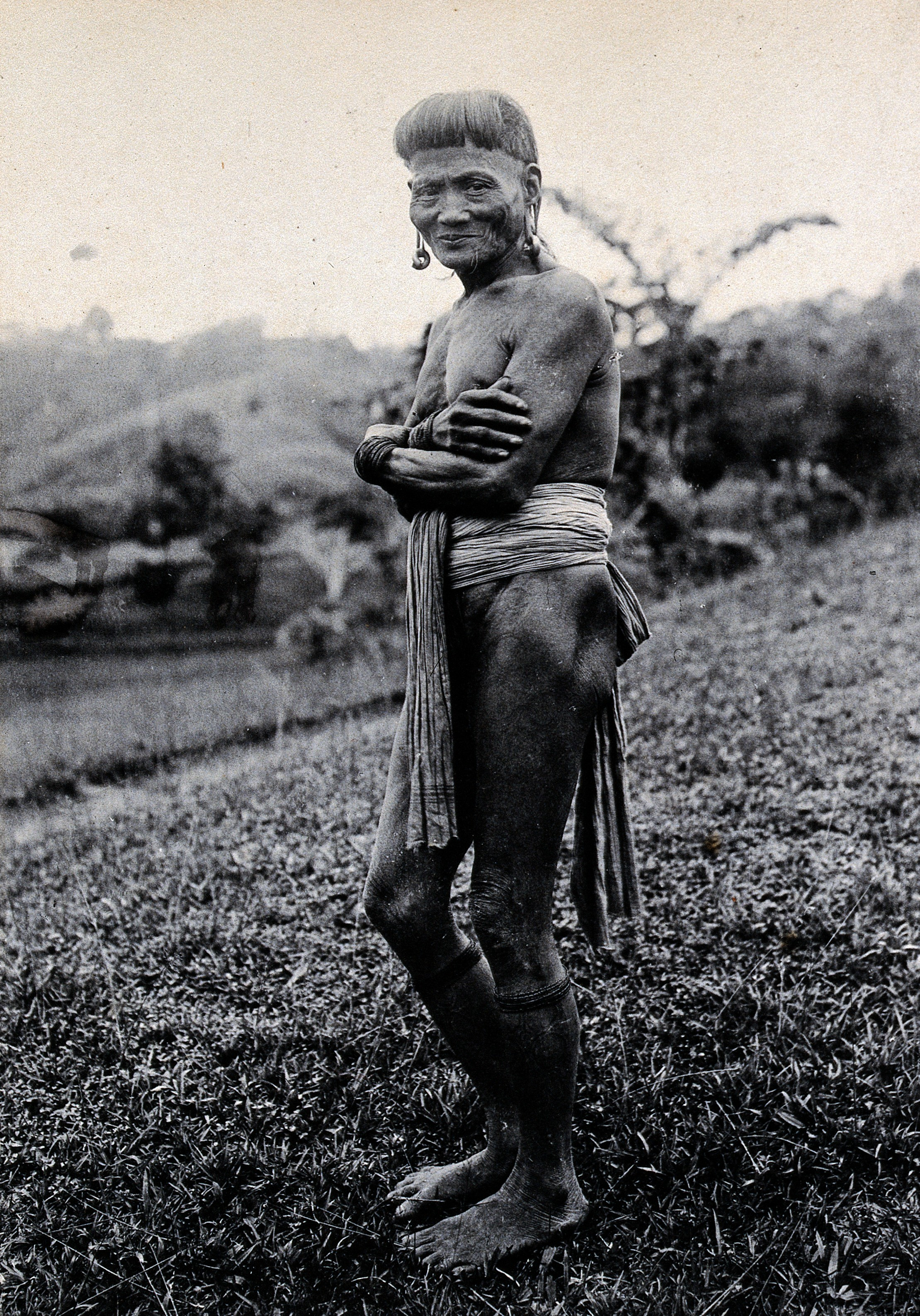 Sarawak: a Ukit tribesman. Photograph. Iconographic Collections Keywords: Tribe; Population Groups; Borneo; Tribal; Charles Hose; Anthropology; Malaysia; Ethnography